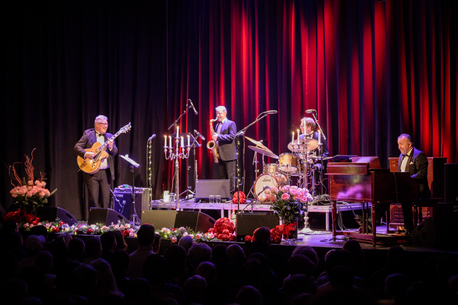 The Real Thing in concert with Angelina Jordan at Cosmopolite. The concert took place on 14. December 2017 in Oslo. Lineup: Angelina Jordan (vocal), Sigrid Brennhaug (vocal), Hermund Nygård (drums), Dave Edge (saxophone), Paul Wagnberg (organ) and Staffan William-Olsson (guitar).